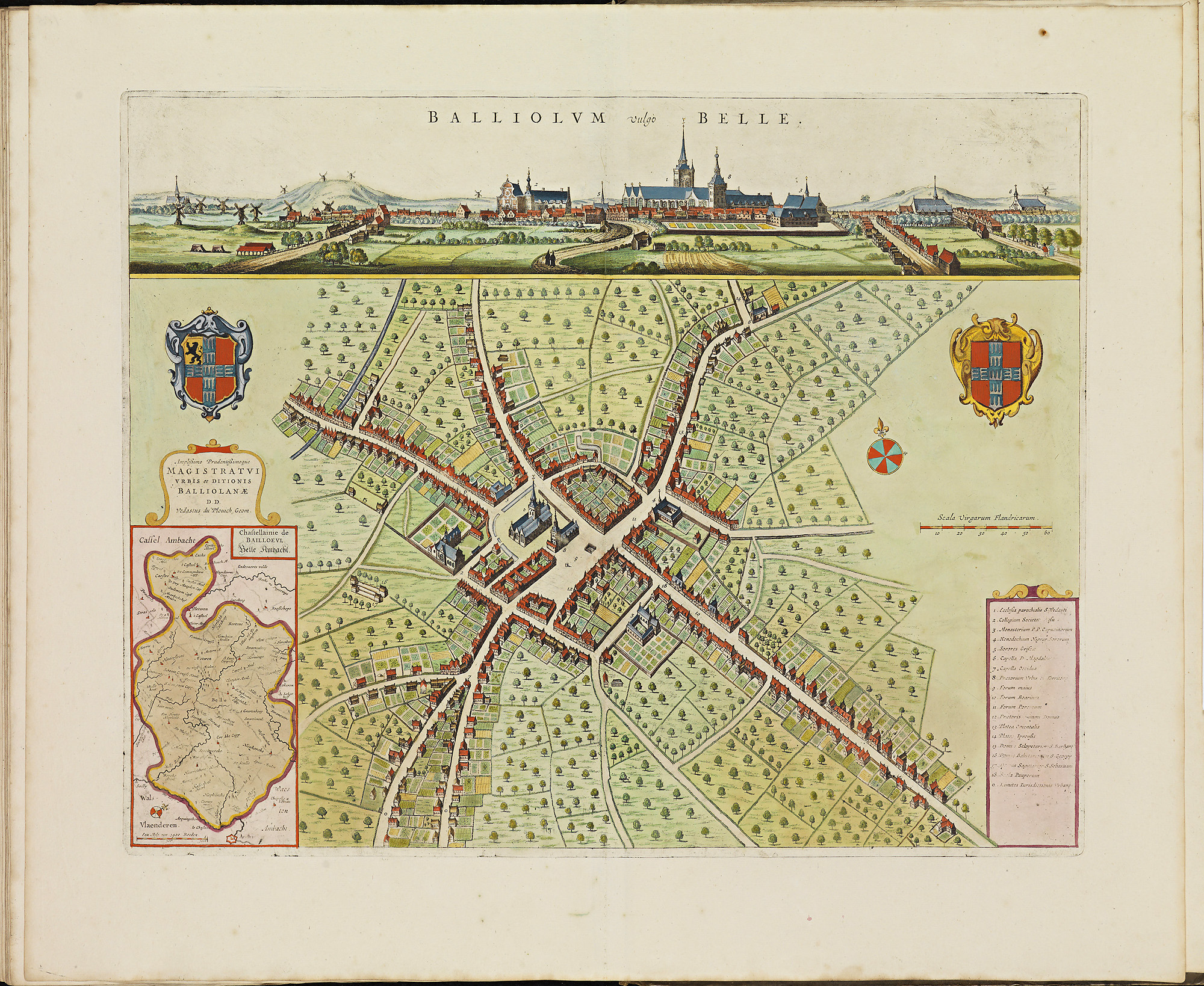 Plate 'pl105'(Bailleul) from the Stedenboek (citybook) by Frederick de Wit.